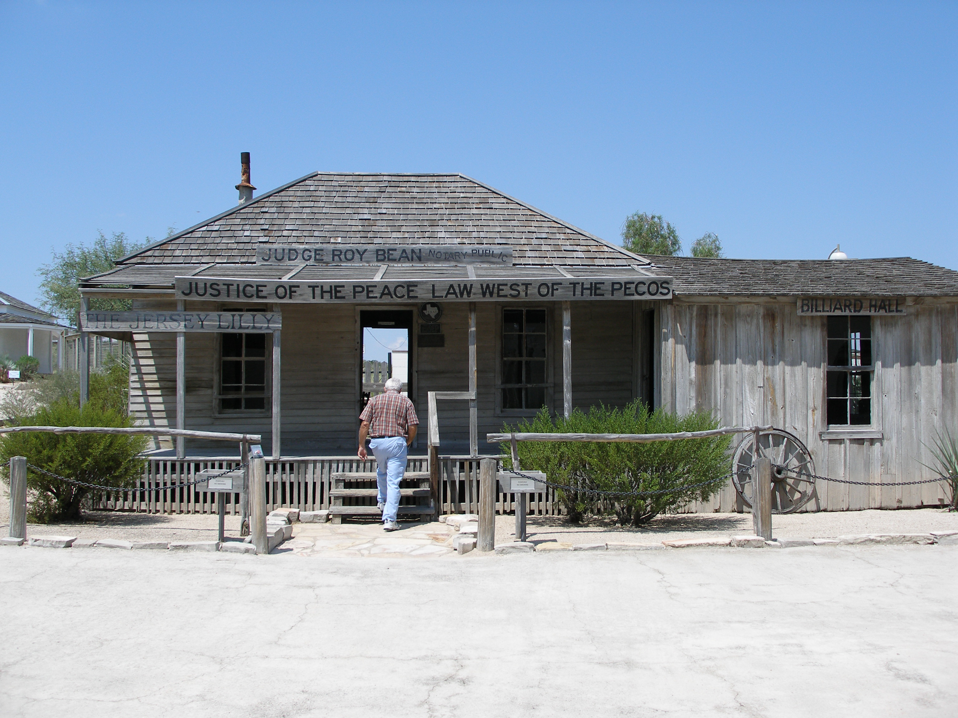 Judge Roy Bean's Jersey Lilly saloon in Langtry, Texas. Photo taken September 2005.